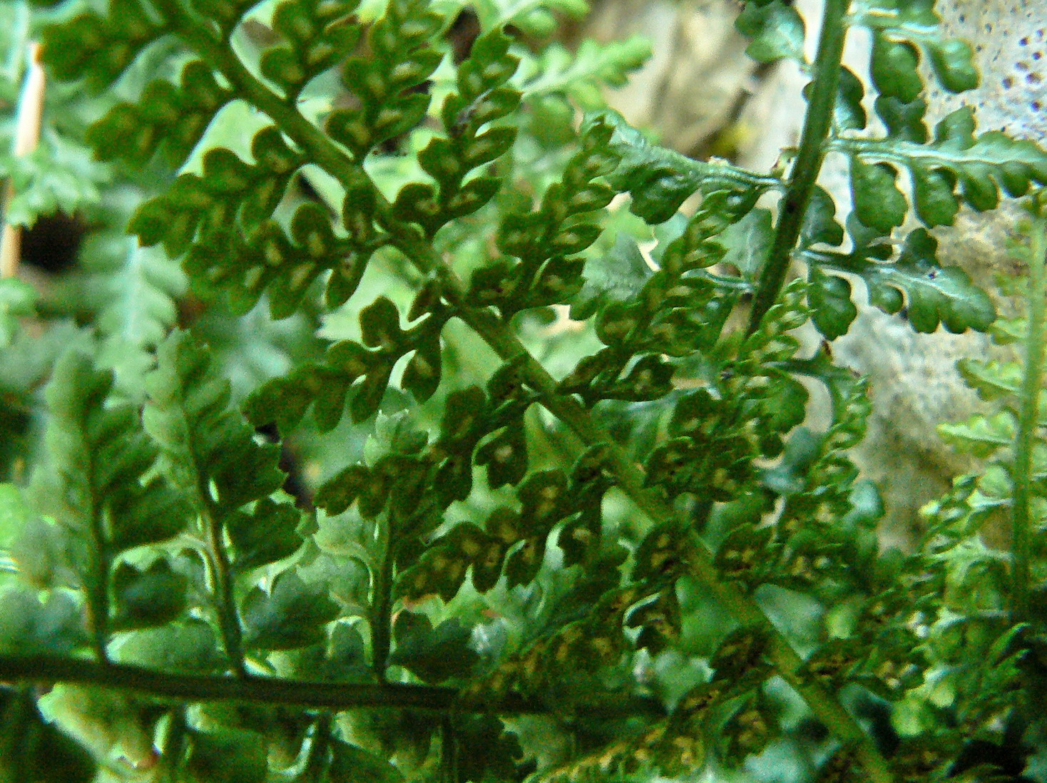 Asplenium fontanum, Devoluy, France. Details of the sori